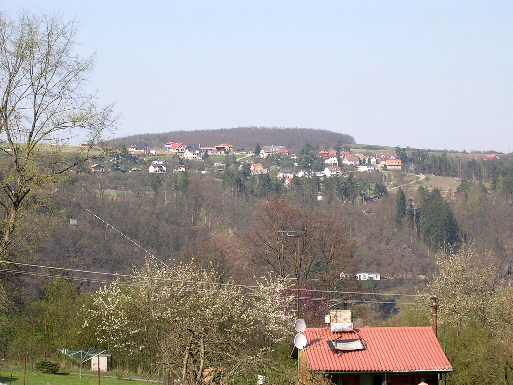 Hradištko-Pikovice, Central Bohemian Region, the Czech Republic. View of Petrov.